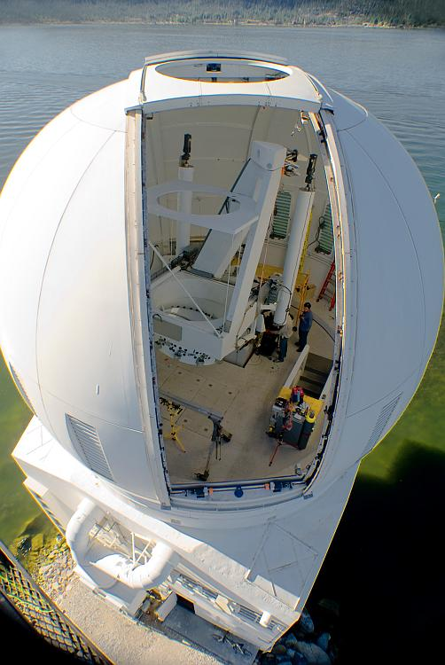 Image of GST Dome